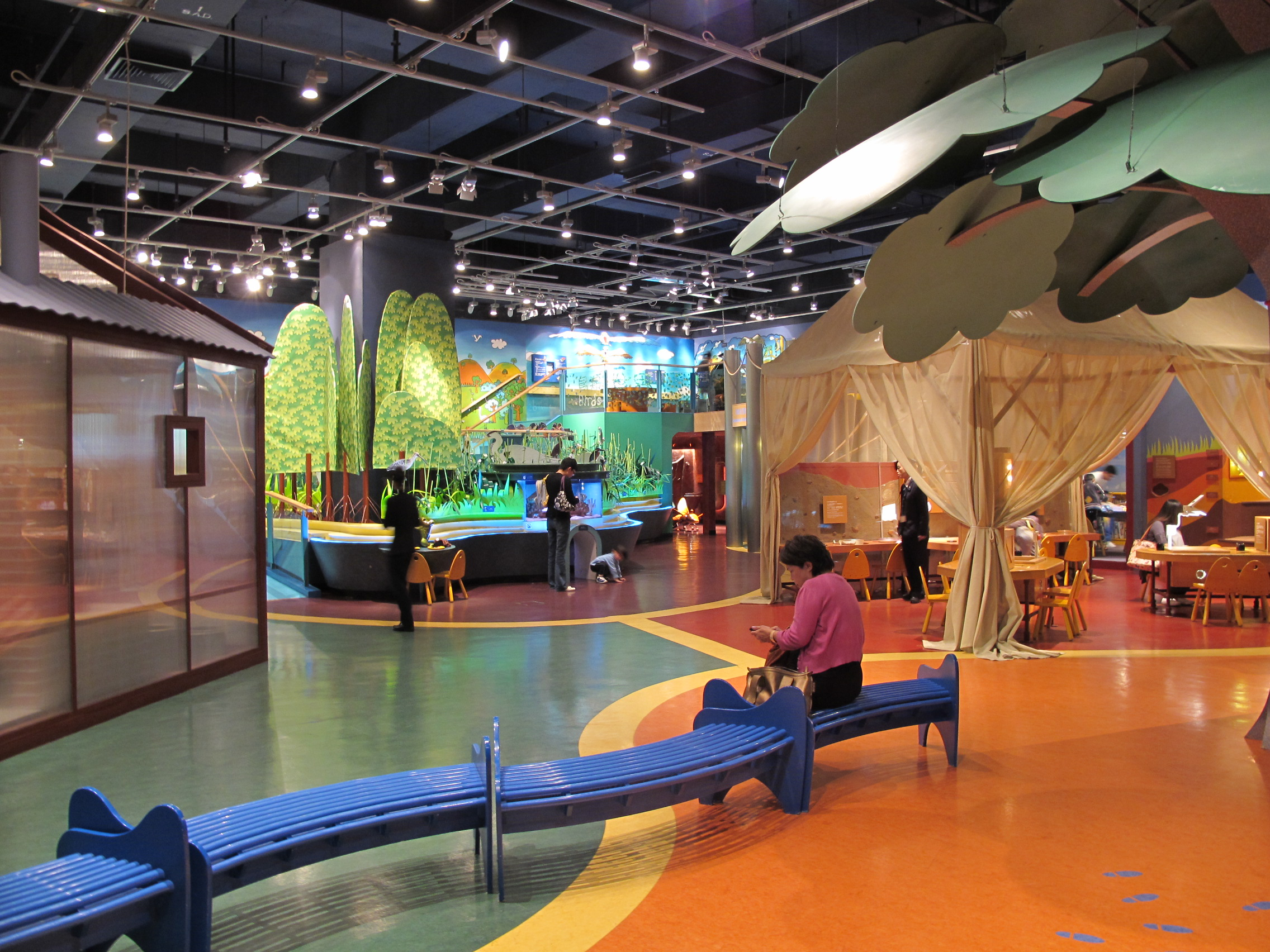 HKHM Children's Discovery Gallery